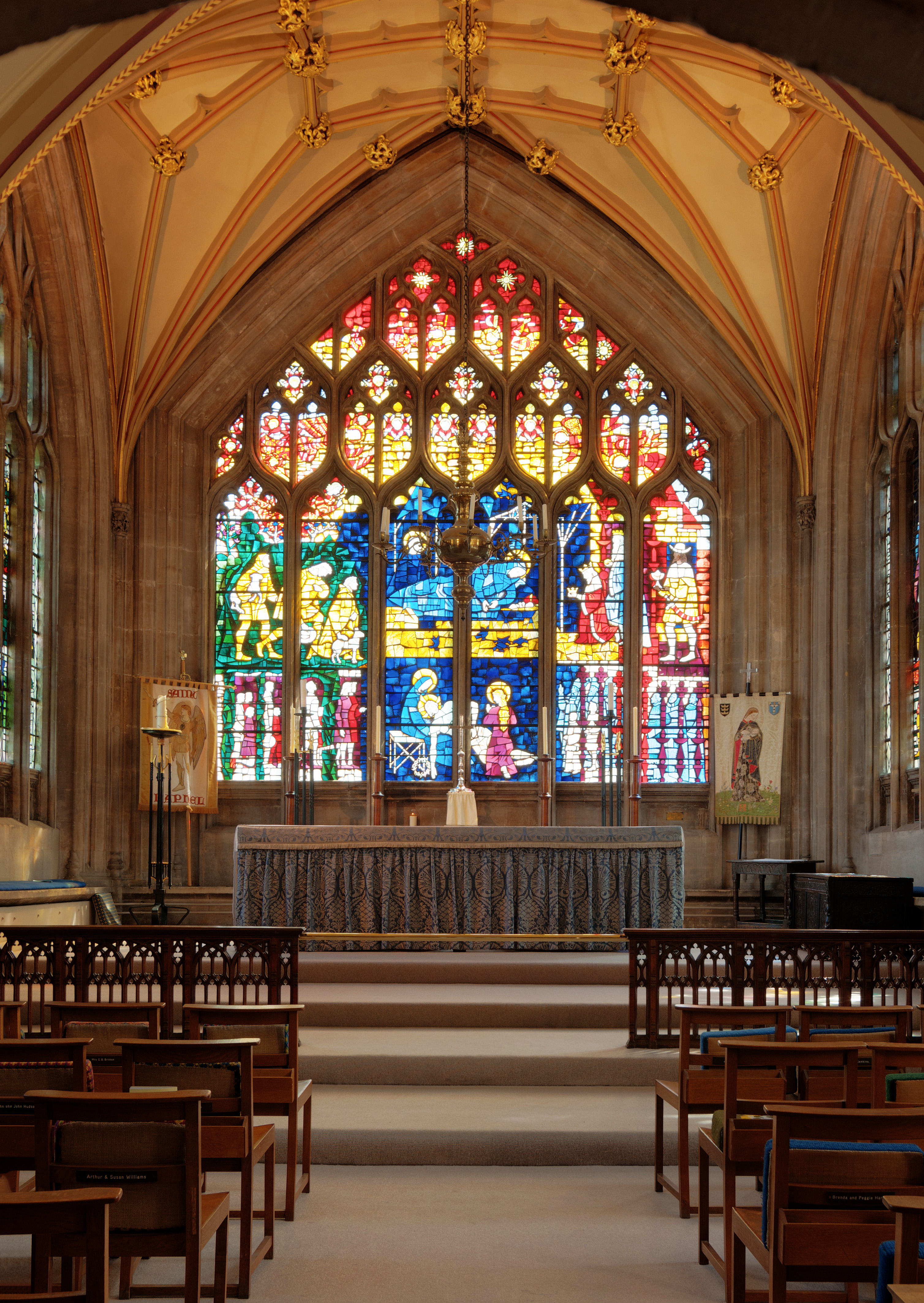 Lady Chapel of St Mary Redcliffe Church, Bristol. UK.